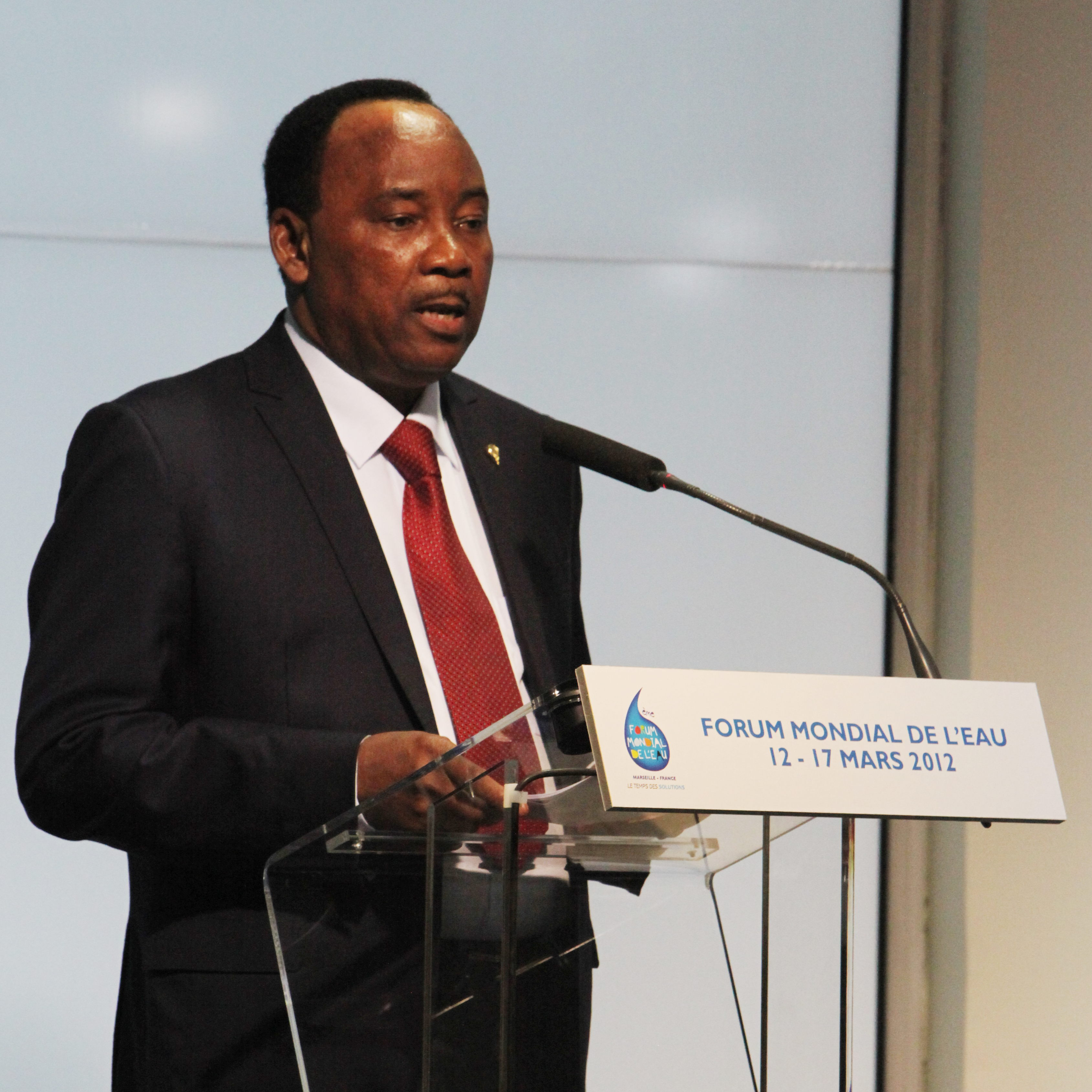 Mahamadou Issoufou at the 6th World Water Forum